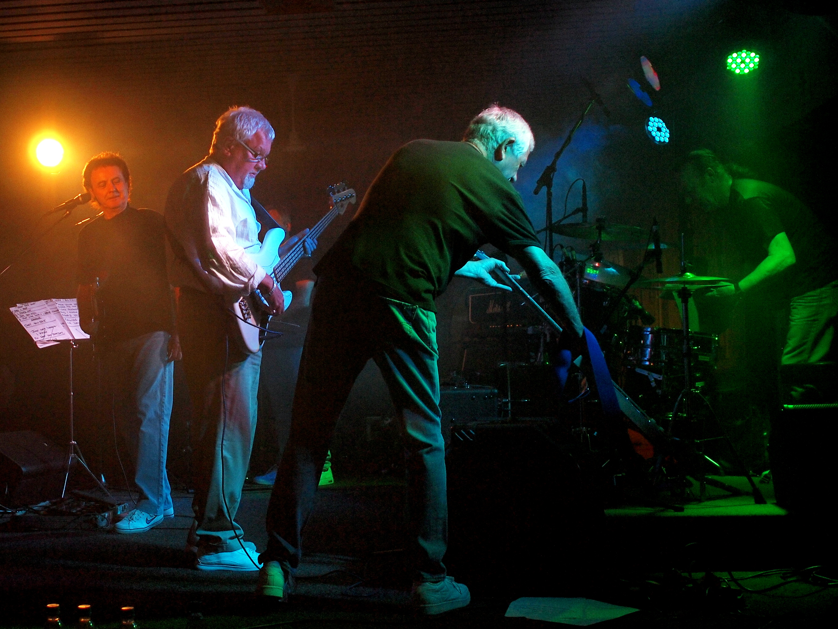 Eric Haydock (in the white shirt) performing with the Swinging Blue Jeans at Kisapirtti in Parikkala, Finland July 13th 2013.